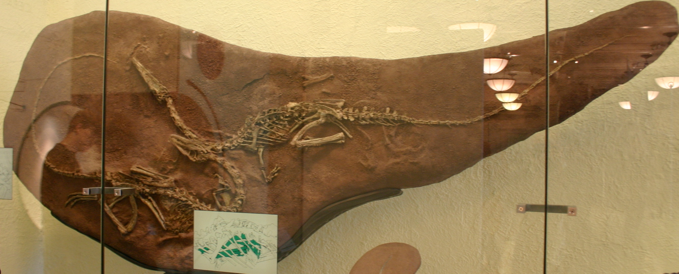 hollow form Visit my blog at